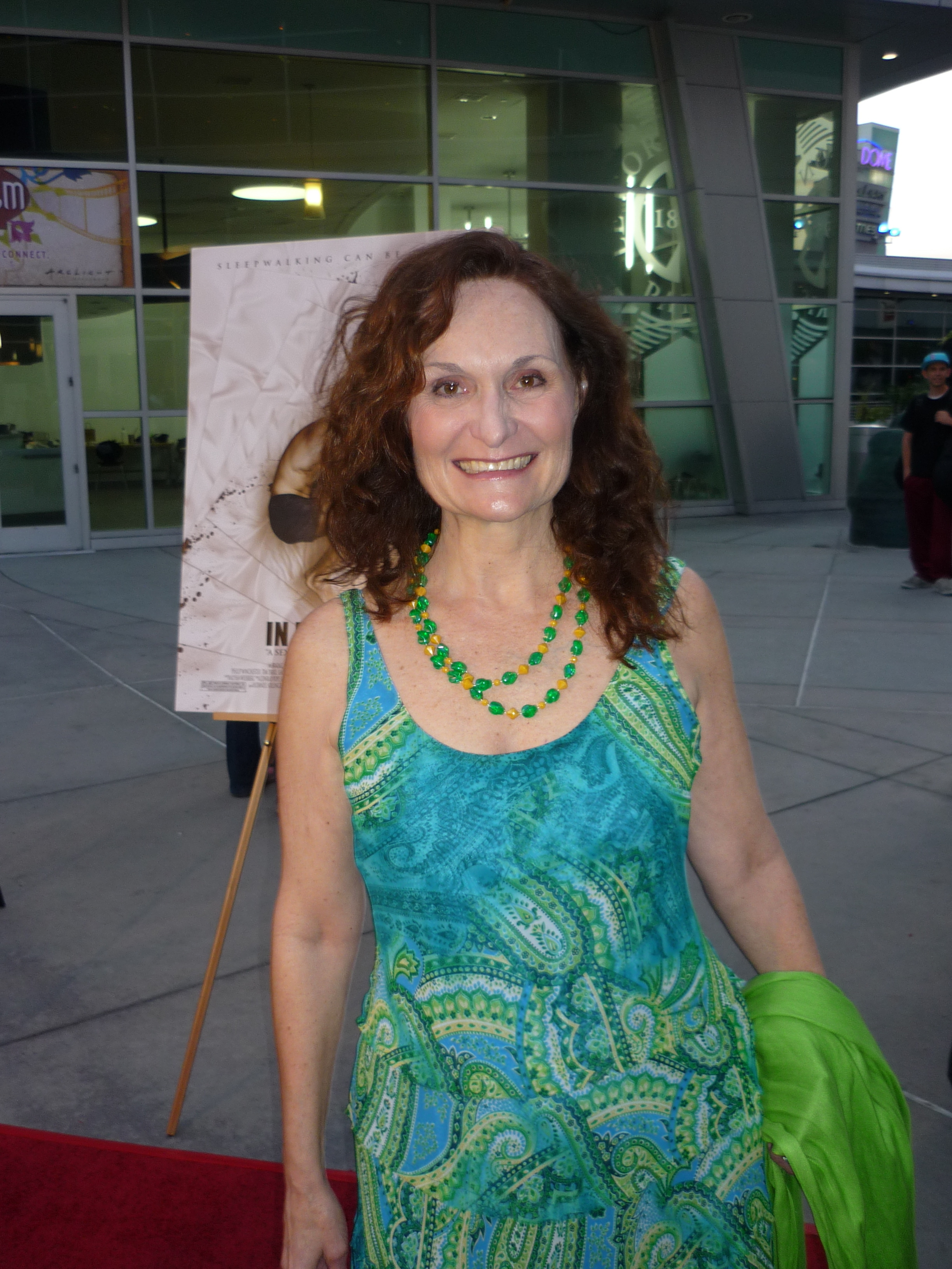 Beth Grant at the premiere of the movie "In My Sleep"